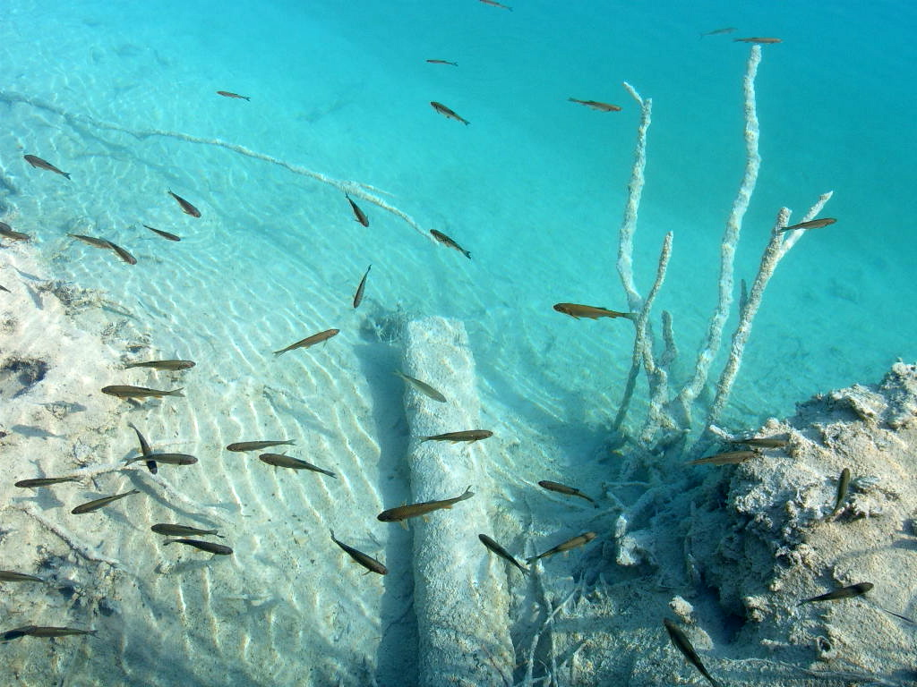 Underwater world of the Plitvice Lakes National Park, Croatia.